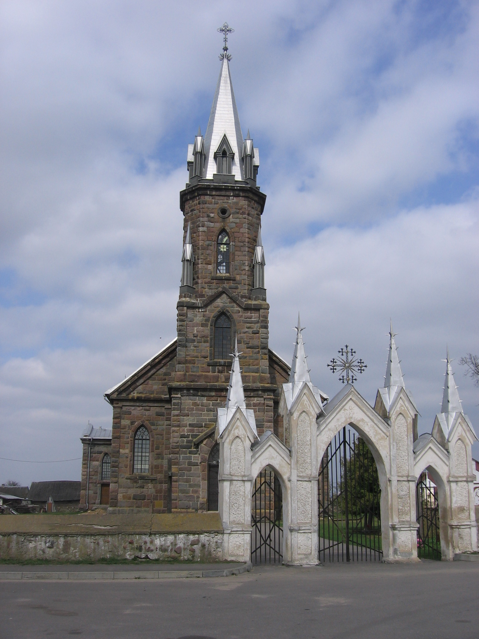 Беларуская (тарашкевіца): Казіміраўскі касьцёл. в. Ліпнішкі This is a photo of Belarusian heritage monument. Reference number: 413Г000301 ( WLM)